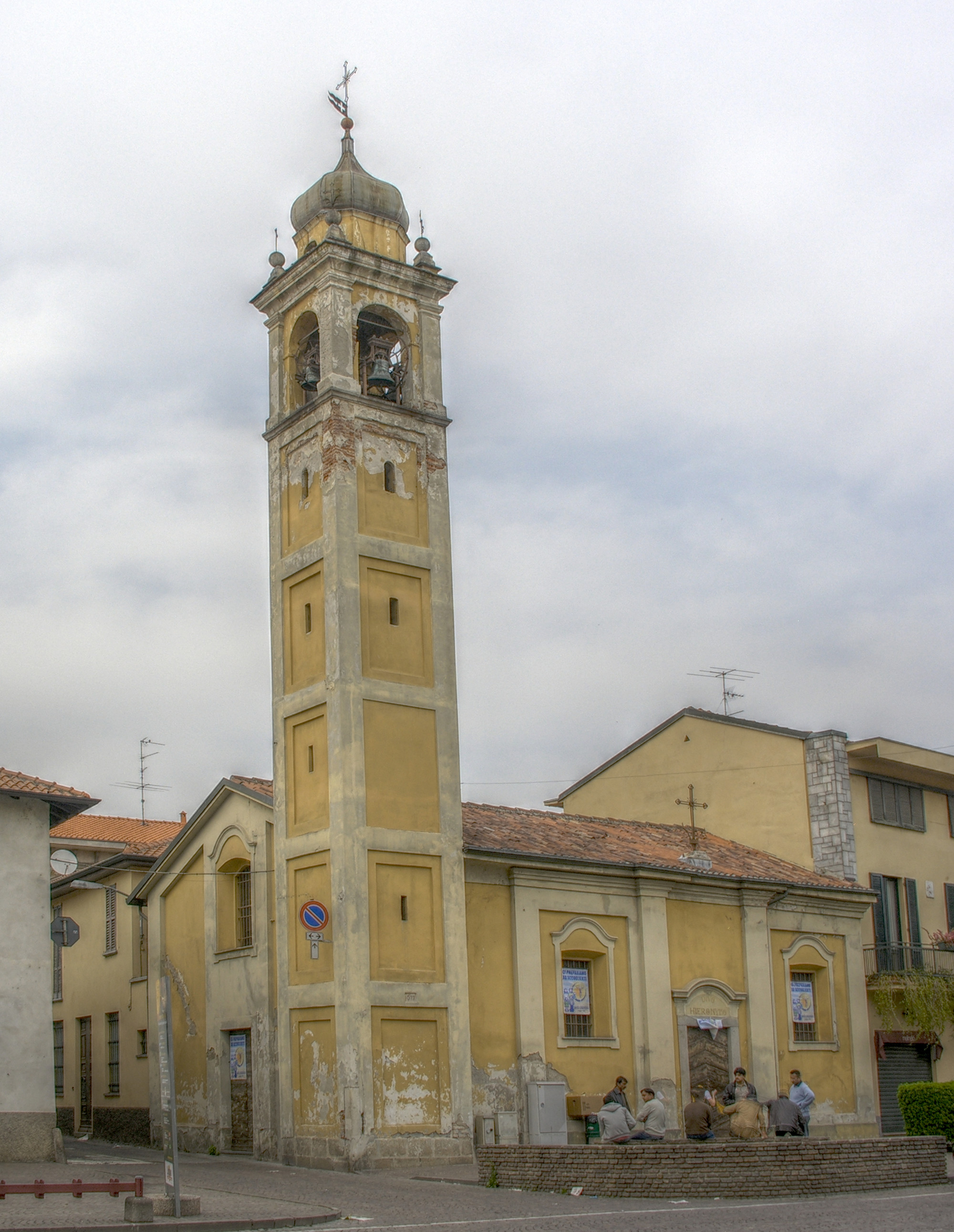 Castano Primo, MI, Italy - San Gerolamo church outside view